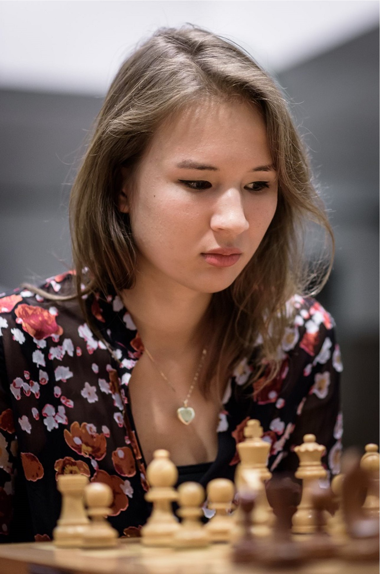 Portrait of Lisa Schut behind a chess board in Amstelveen 2016